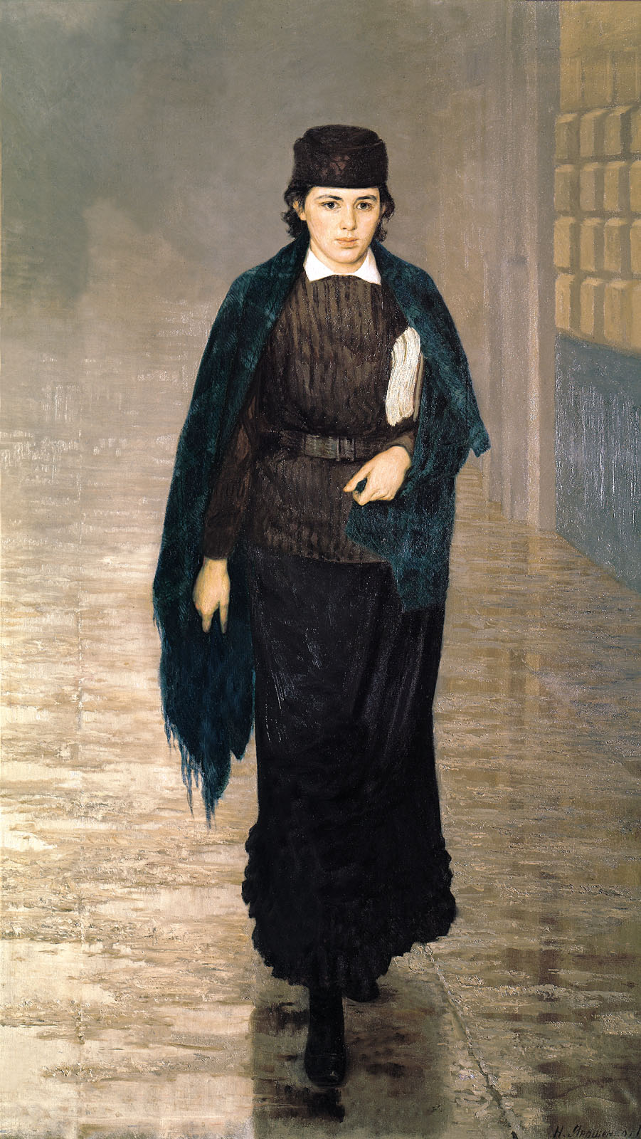 A student of the Bestuzhev Courses. The model is the future wife of Vladimir Chertkov.